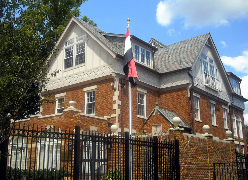 The Embassy of Iraq is the diplomatic mission of Iraq to the United States. It is comprised of four separate offices. The chancery (pictured) is located at 3421 Massachusetts Avenue, NW in the Massachusetts Heights neighborhood of Washington, D.C. The former chancery, now used as the Iraqi consular office, is located at 1800 P Street, NW (also known as the Boardman House) in the Dupont Circle neighborhood. The office of the cultural attaché is located at 1638 R Street, NW, also in Dupont Circle. The office of the military attaché is located at 2600 Virginia Avenue, NW in the Foggy Bottom neighborhood.